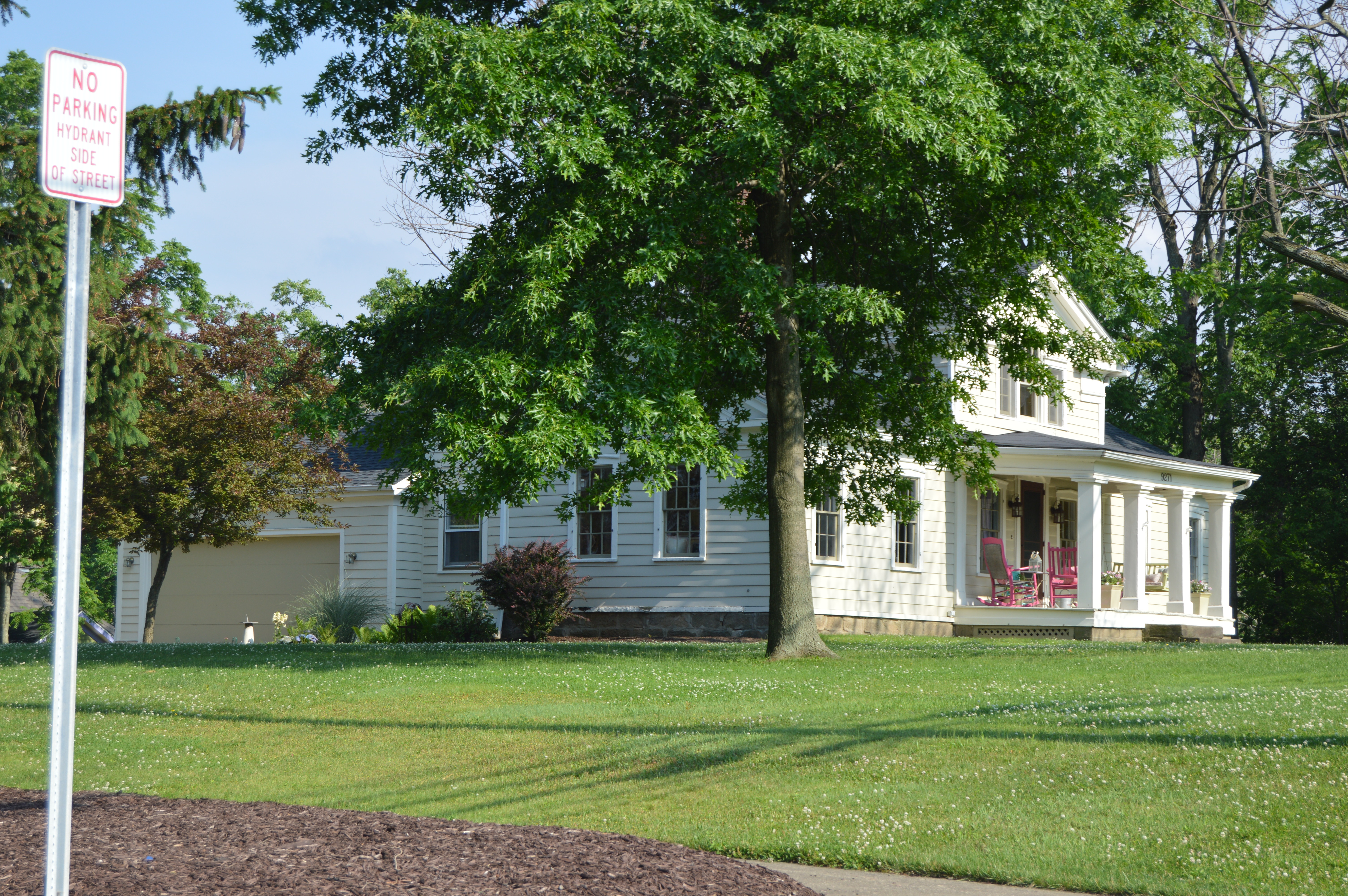 Front and northern side of the John M. Annis House, located at 9271 State Road (State Route 94) in North Royalton, Ohio, United States. Built in 1833, it is listed on the National Register of Historic Places.